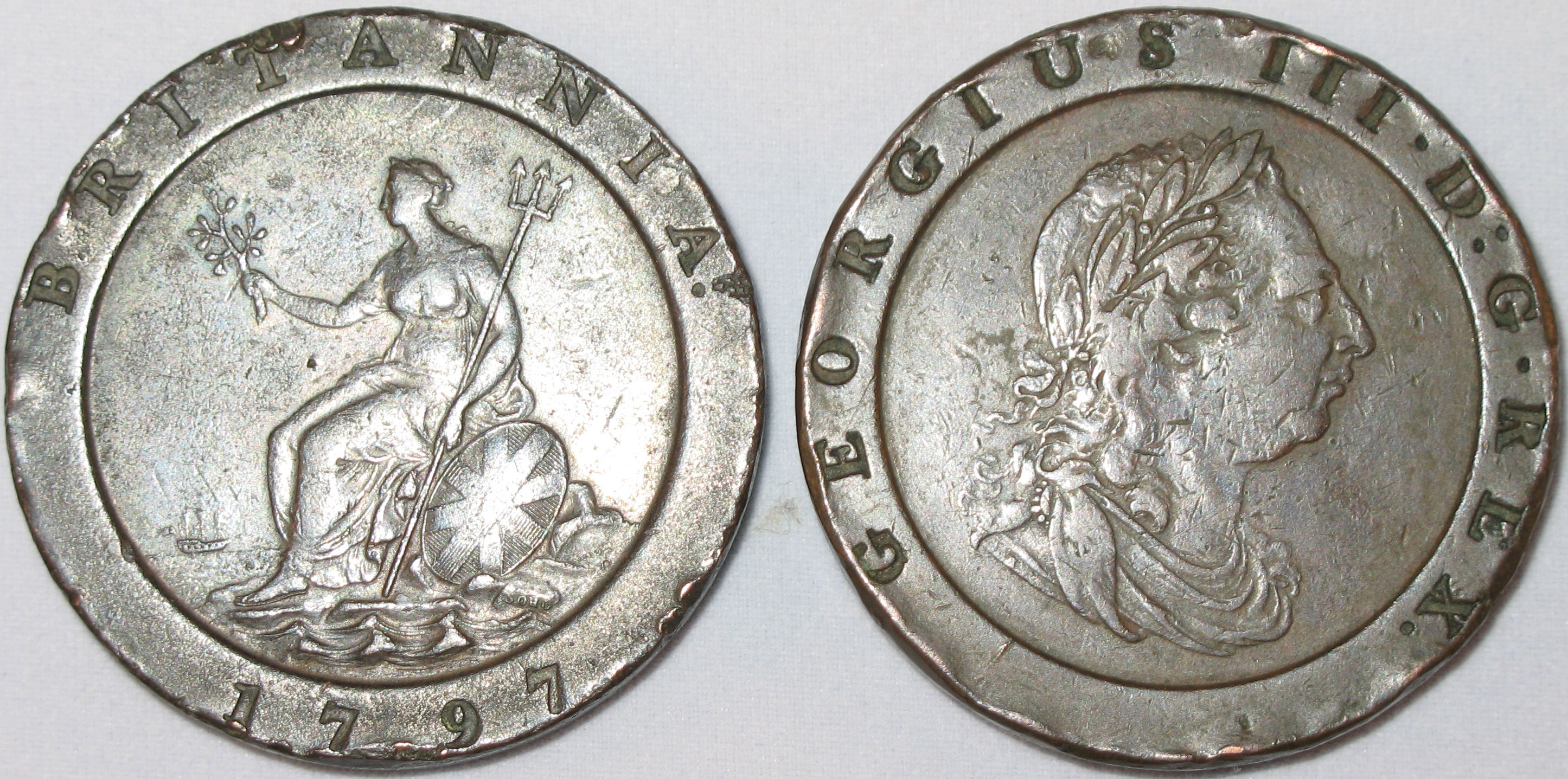 Cartwheel twopence coins made at the Soho Mint, Birmingham, England.